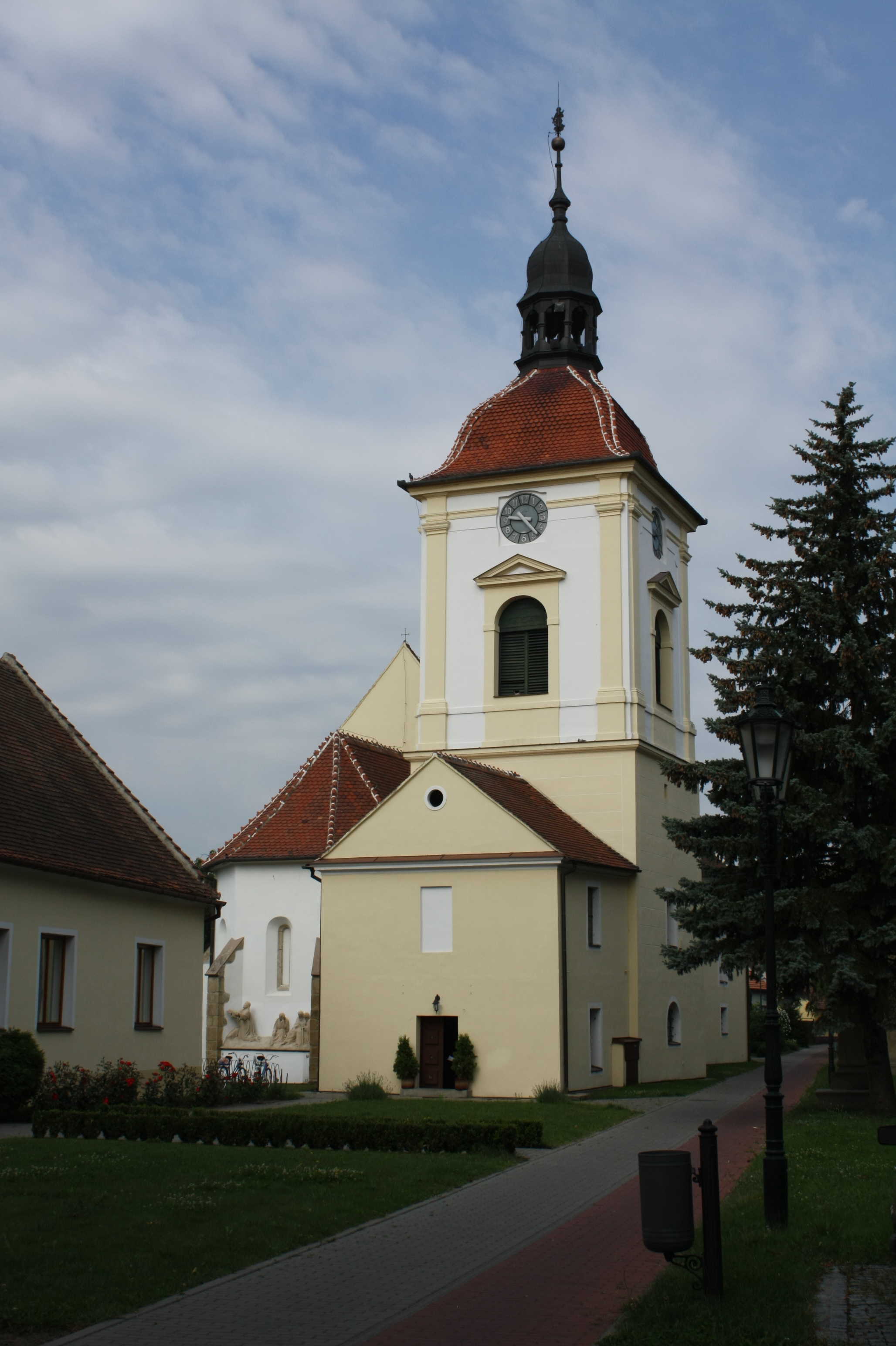 Vracov, Hodonín district, Czech Republic - St. Lawrence church (13th century) Object location48° 58′ 46.7″ N, 17° 12′ 59.55″ E